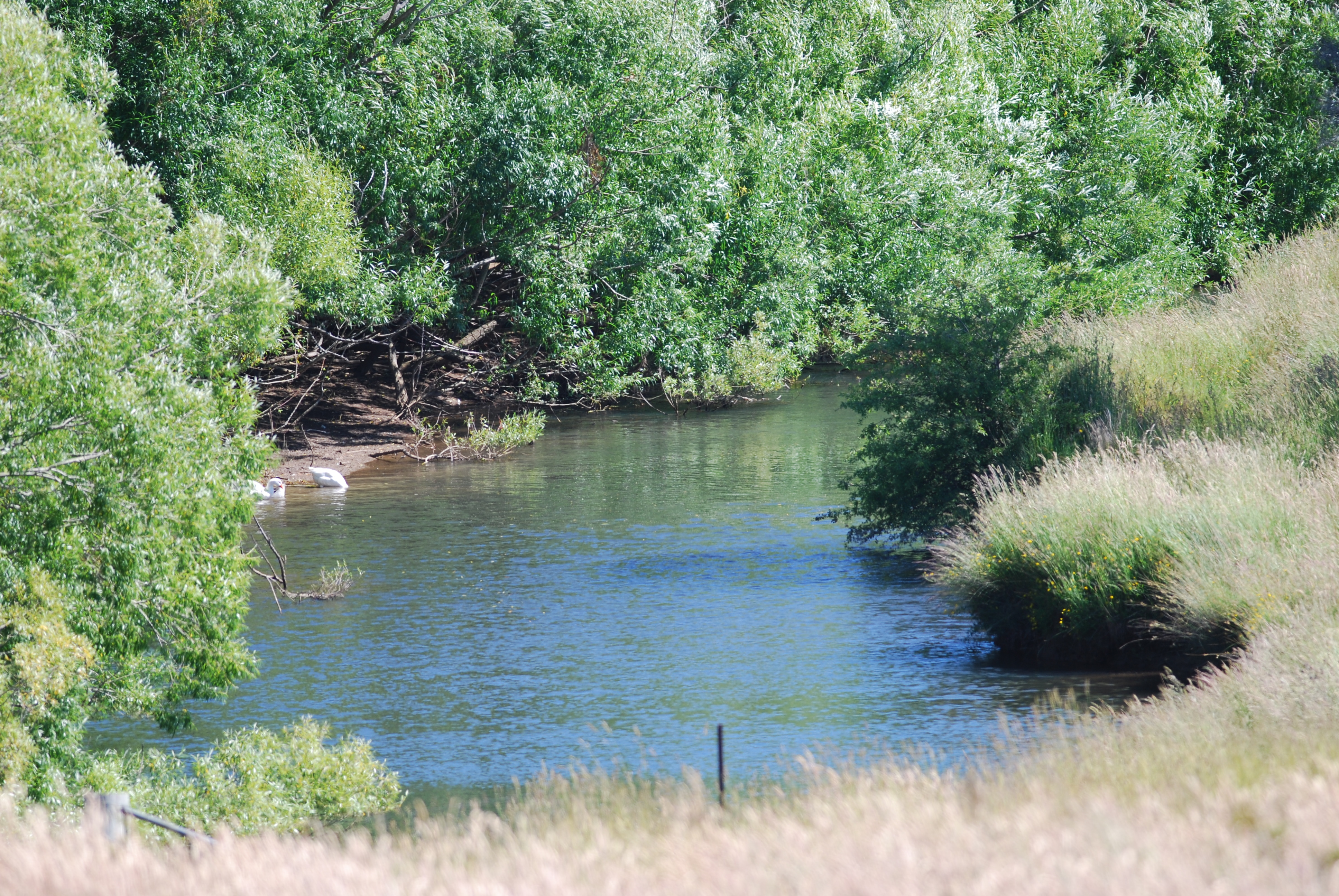 The river Liffey, Carrick, Tasmania